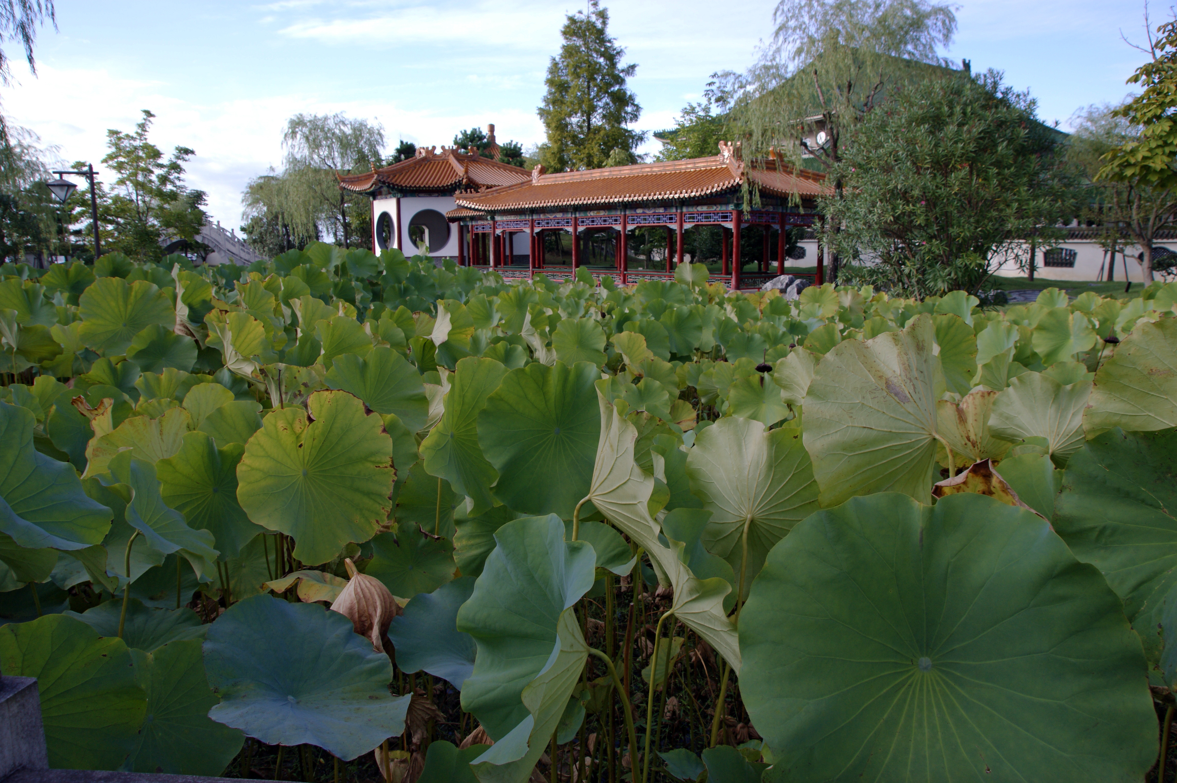 Enchoen in Yurihama, Tottori prefecture, Japan